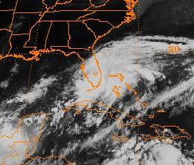 Precursor Trough of low pressure to Tropical Storm Leslie on October 3, 2000